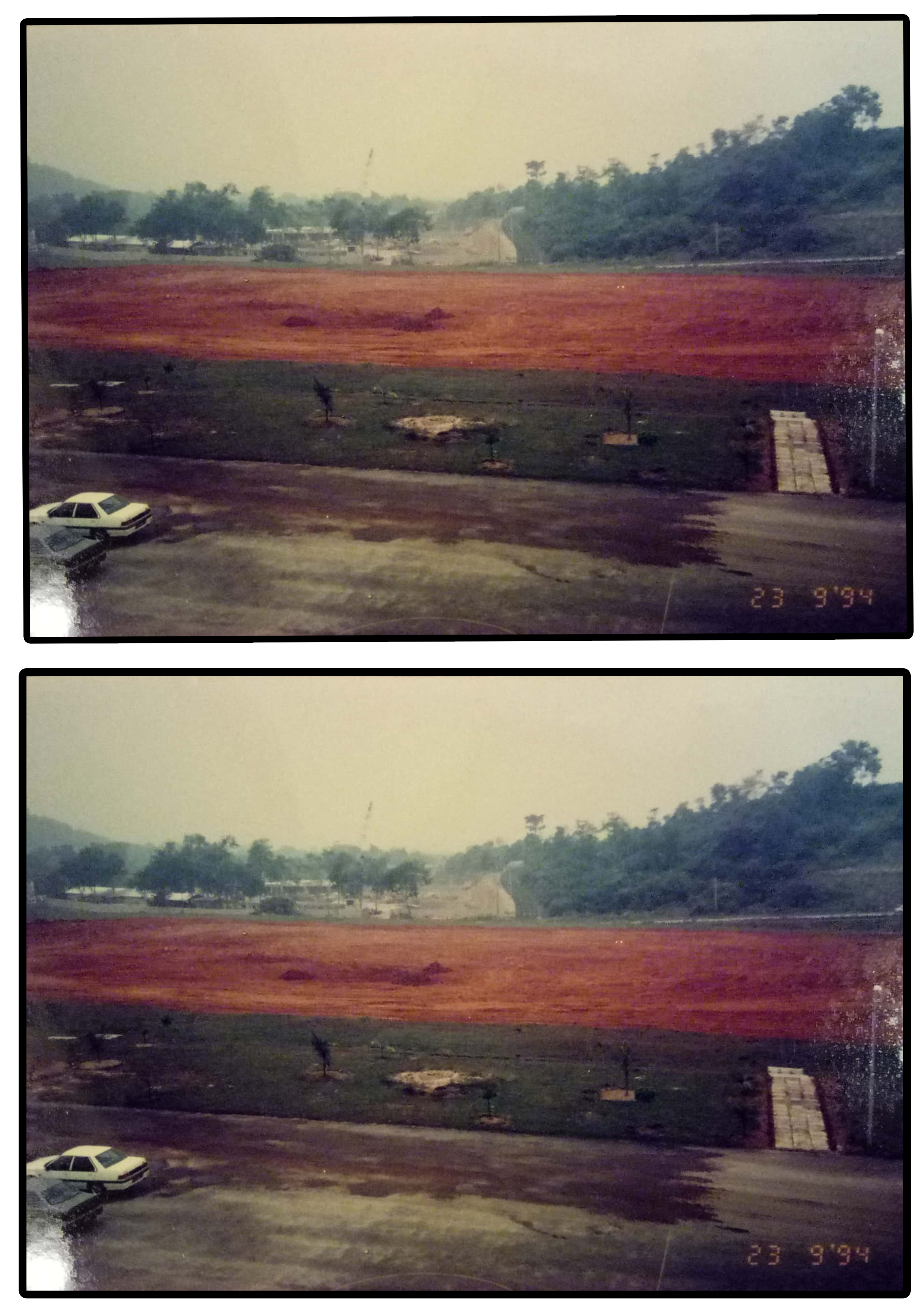 Pandang Sekolah SMKBB